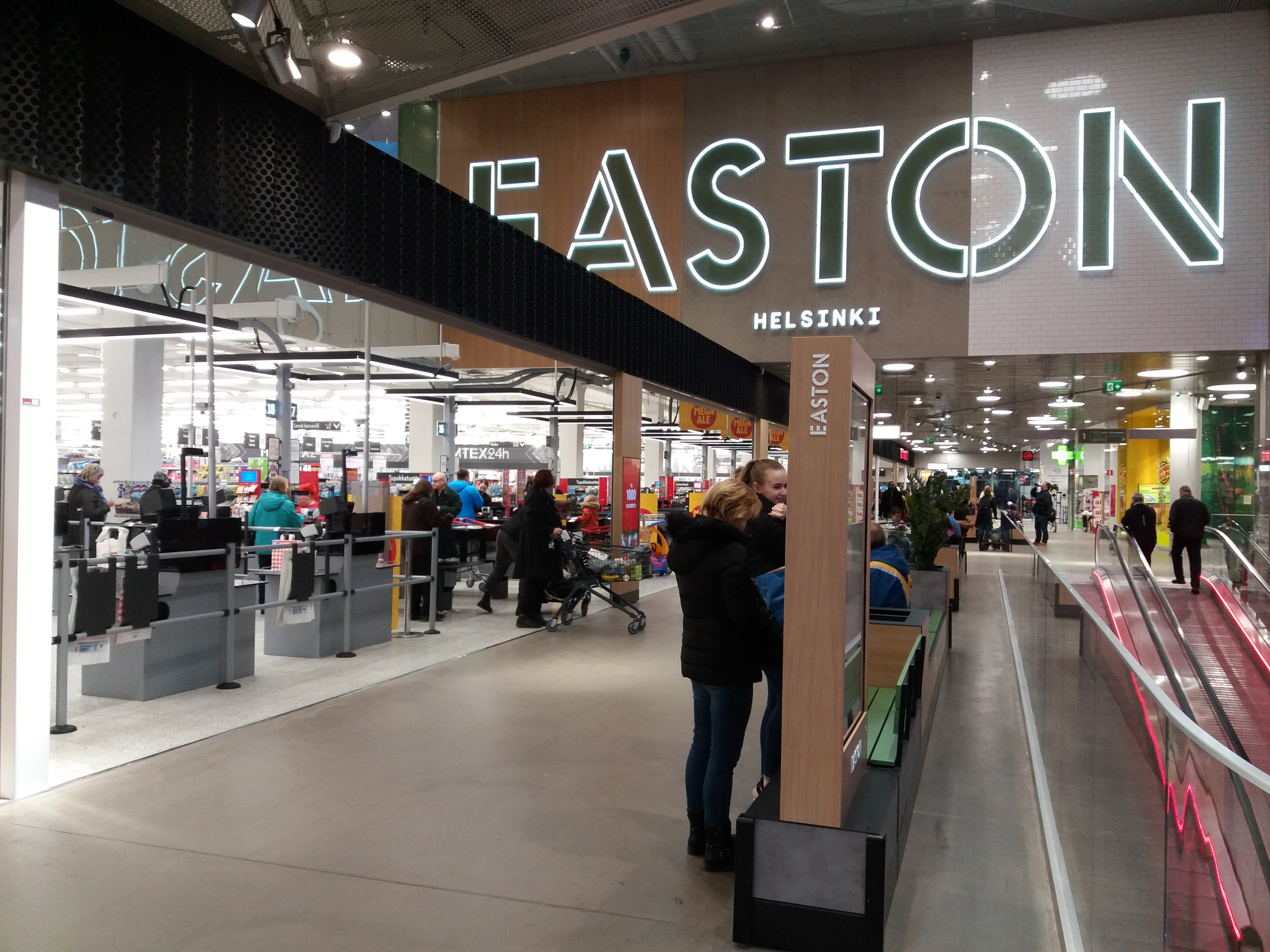 K-Citymarket hypermarket in shopping center Easton Helsinki